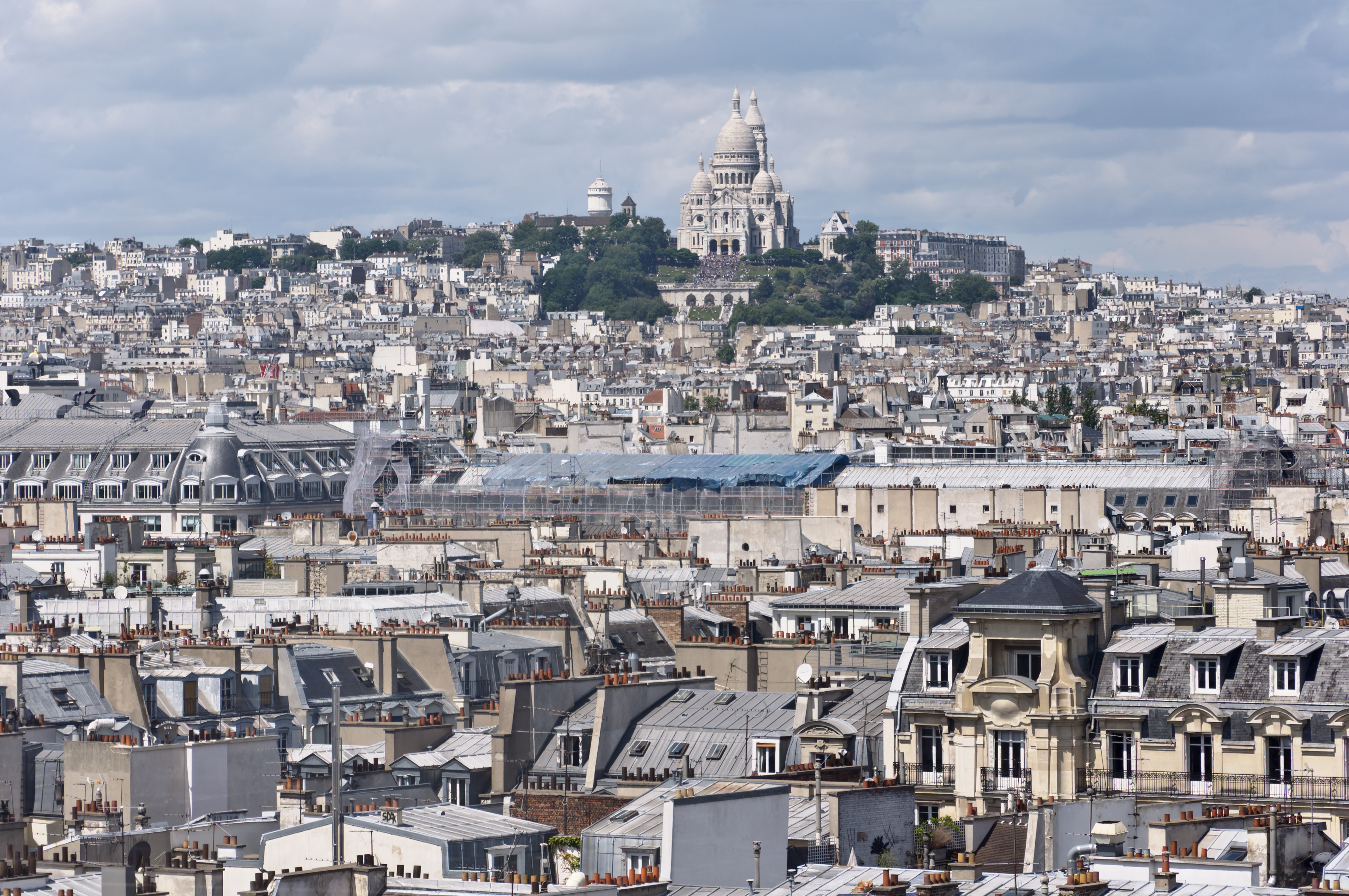 Montmartre hill and Sacré-Cœur basilica seen from Pompidou Centre, Paris, France.